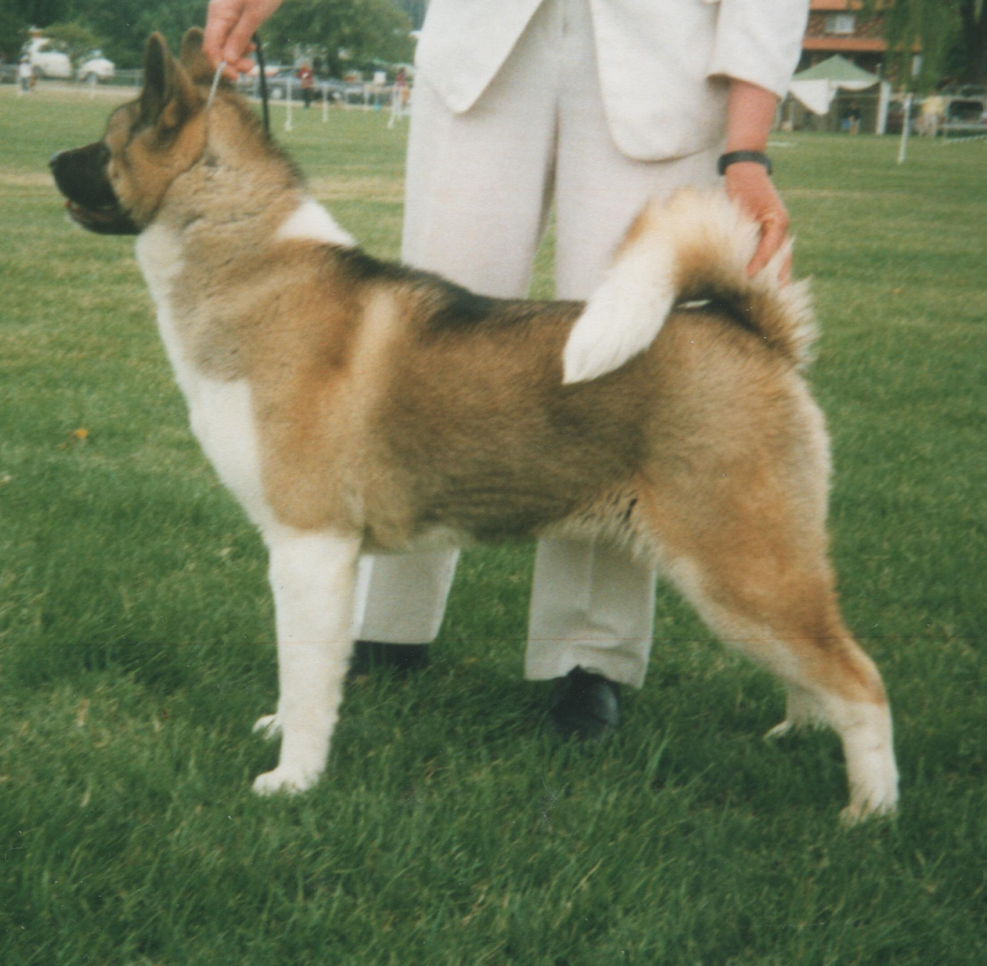 Female American style Akita, taken in Australia.